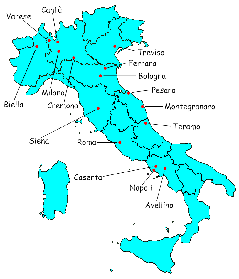 Geographic position of teams participating to the Italian Male "Serie A FIP 2009-2010"